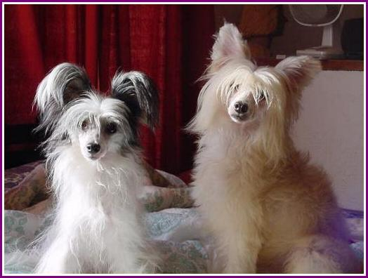 Chinese Crested Dog varieta' powderpuff